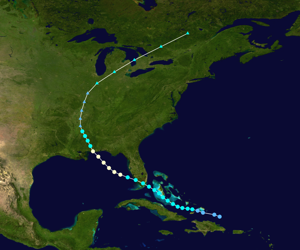 1932 Atlantic hurricane 3 track. Uses the color scheme from the Saffir-Simpson Hurricane Scale.